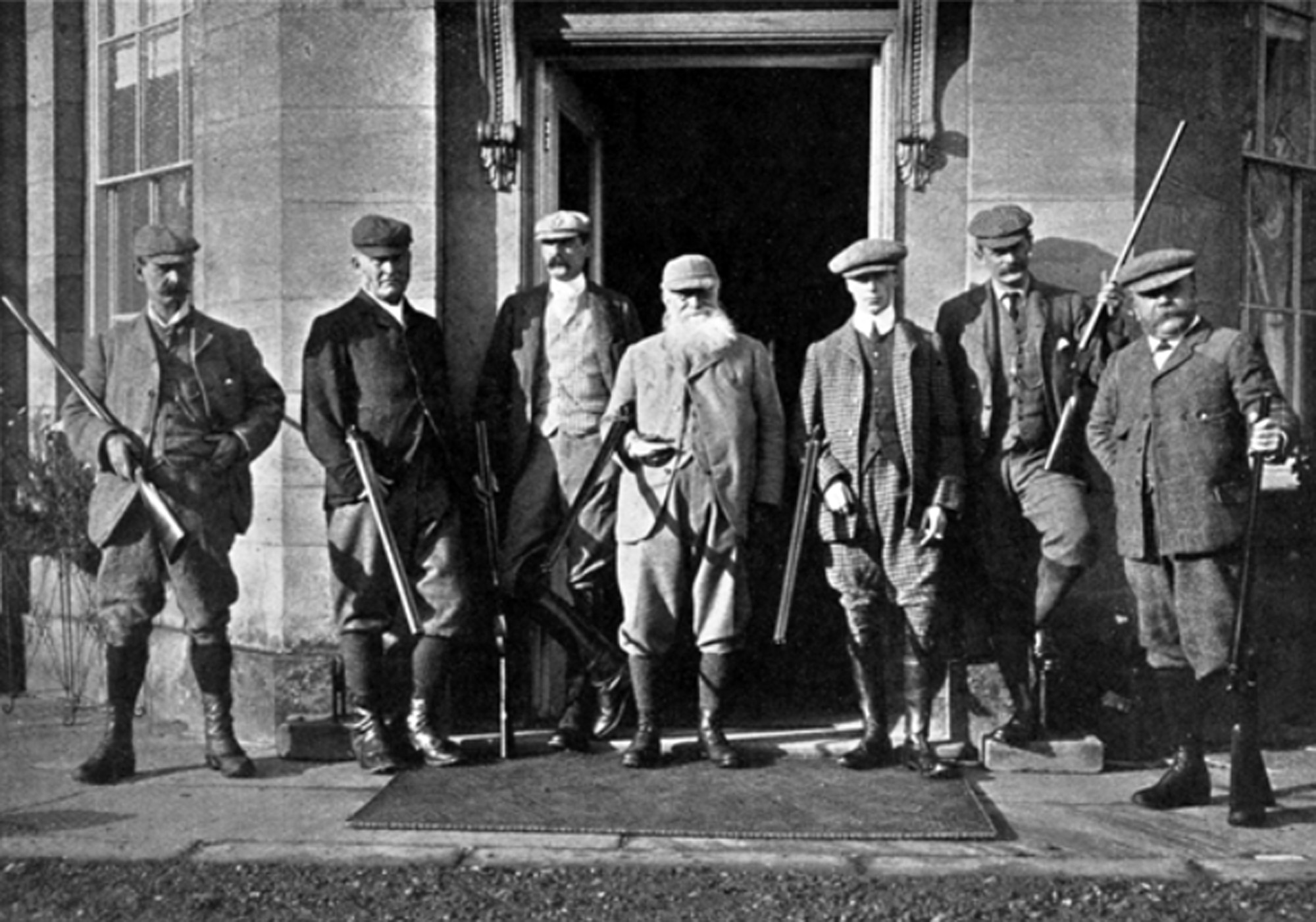 Baron Christopher Furness (extreme right) with a shooting party at Grantley Hall, in 1902